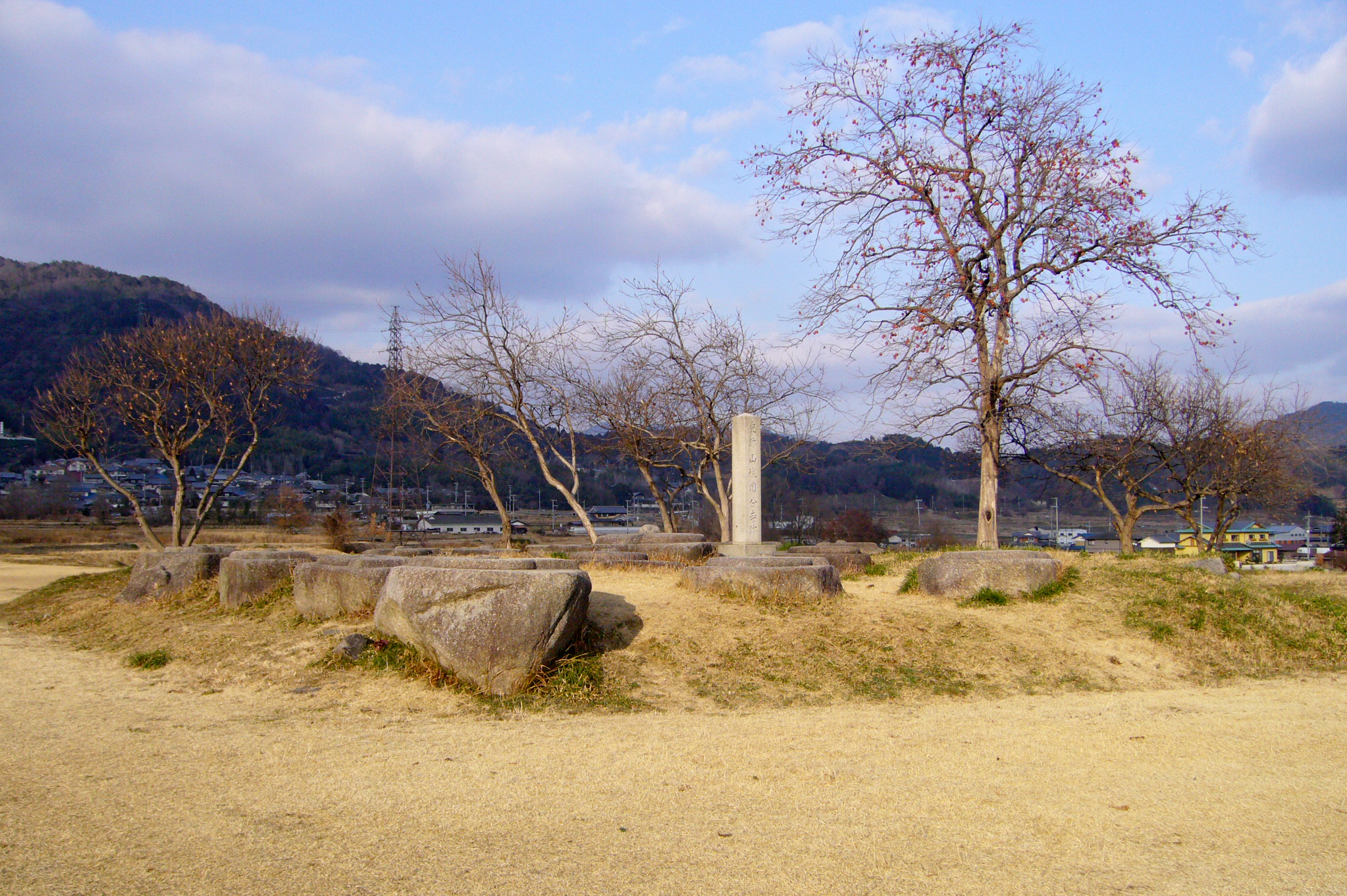 Kuni-kyō (Yamashirokokubunji) ruins in Kizugawa, Kyoto prefecture, Japan